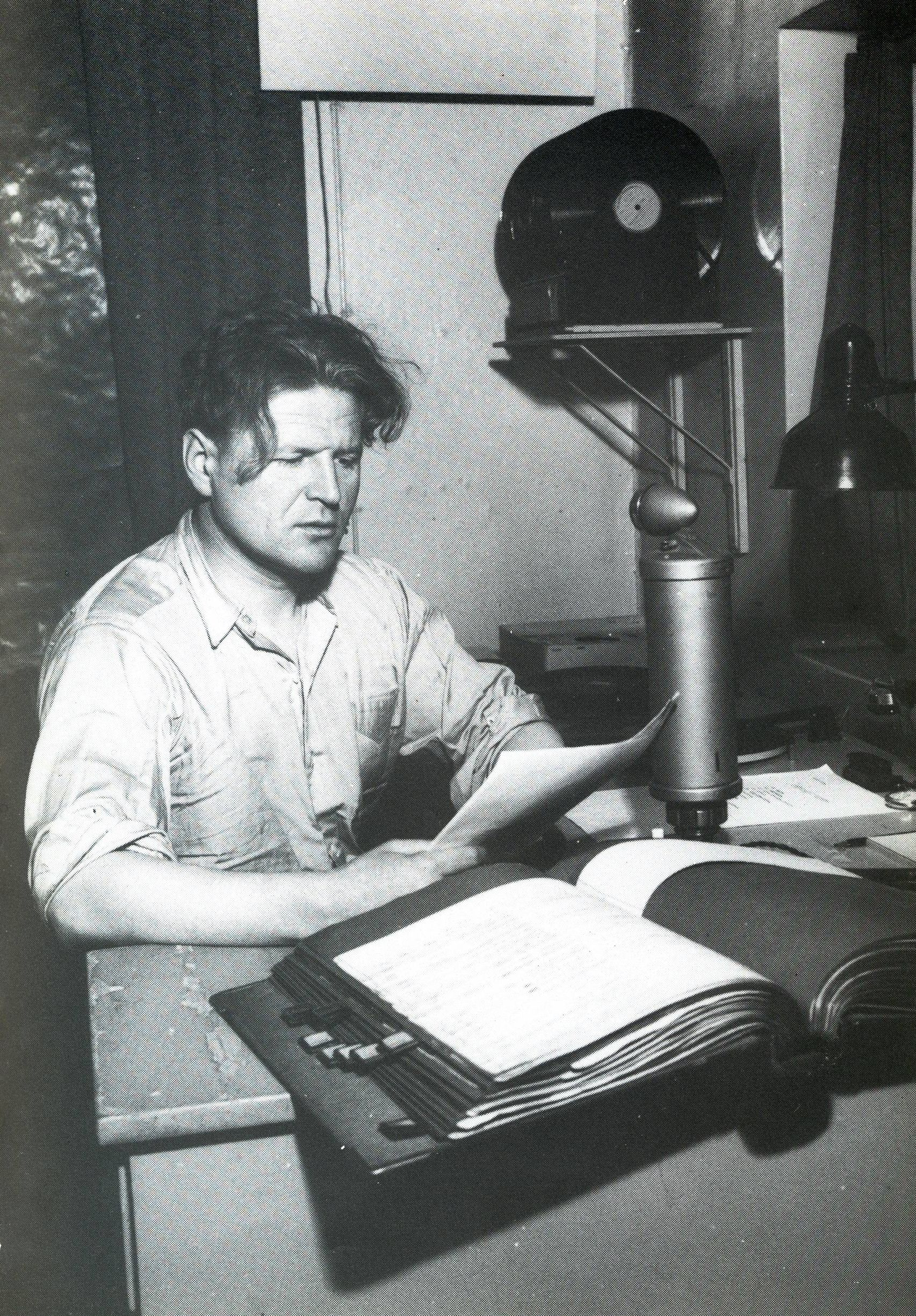 Pekka Tiilikainen